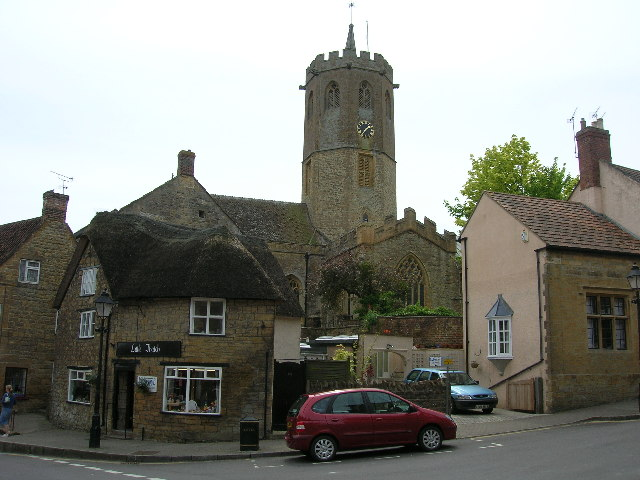 South Petherton